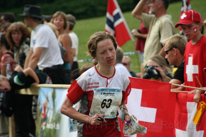 Pole Monika Depta at the World Orienteering Championships 2006 in Aarhus, Denmark.